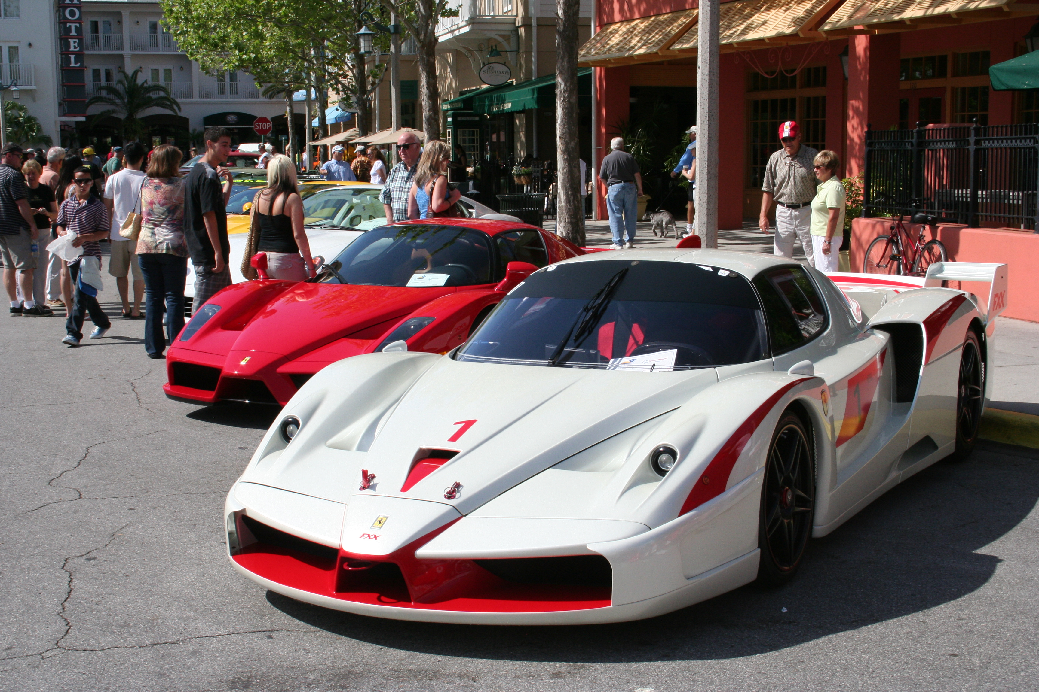 Ferrari FXX next to standard road car Enzo.